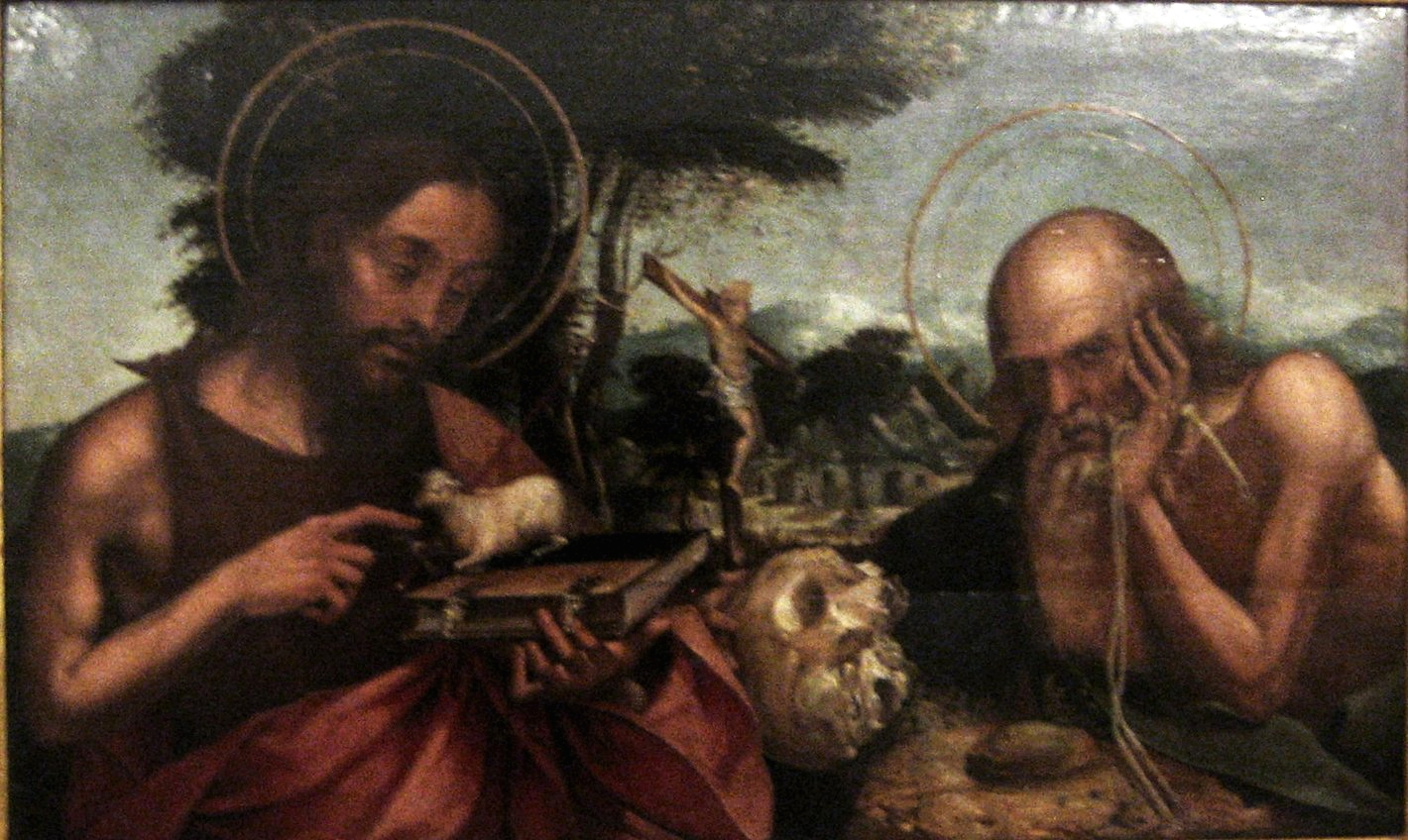 Saint John the Baptist and Saint Jerome